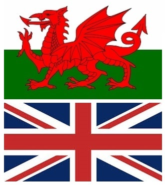 Welsh and British flag